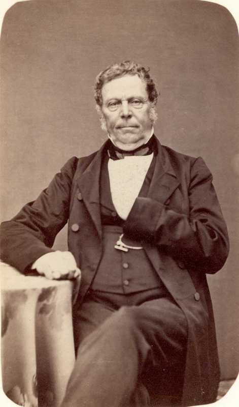 Jacob Benjamin Wegner